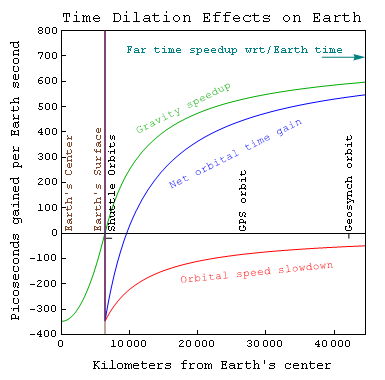 The speedy motion of a satellite in space slows down its clocks relative to ours on earth, while its distance out of the earth's gravitational well makes satellite clocks go a bit faster. Thus shuttle pilots age less than a couch potato at the south pole, while geosynchronous orbiters (as well as interstellar dust particles) age more rapidly. This also means that the surface of the earth may be more than a year older than the earth's center, assuming that both were formed at the same time. Although the resulting errors in satellite timing are measured in nanoseconds, lightspeed is 30 centimeters (1 foot) per nanosecond so that the combined effects can result in GPS errors as large as 15 meters if not taken into account.